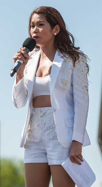 Sam Milby at LondonBarrioFiesta30Years 2014 Saturday 19th July.